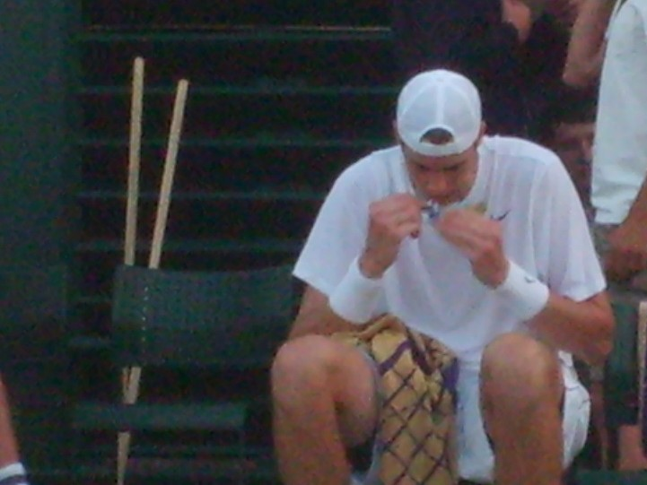 Isner eating on his chair during the first day of his match against Mahut at Wimbledon 2010.